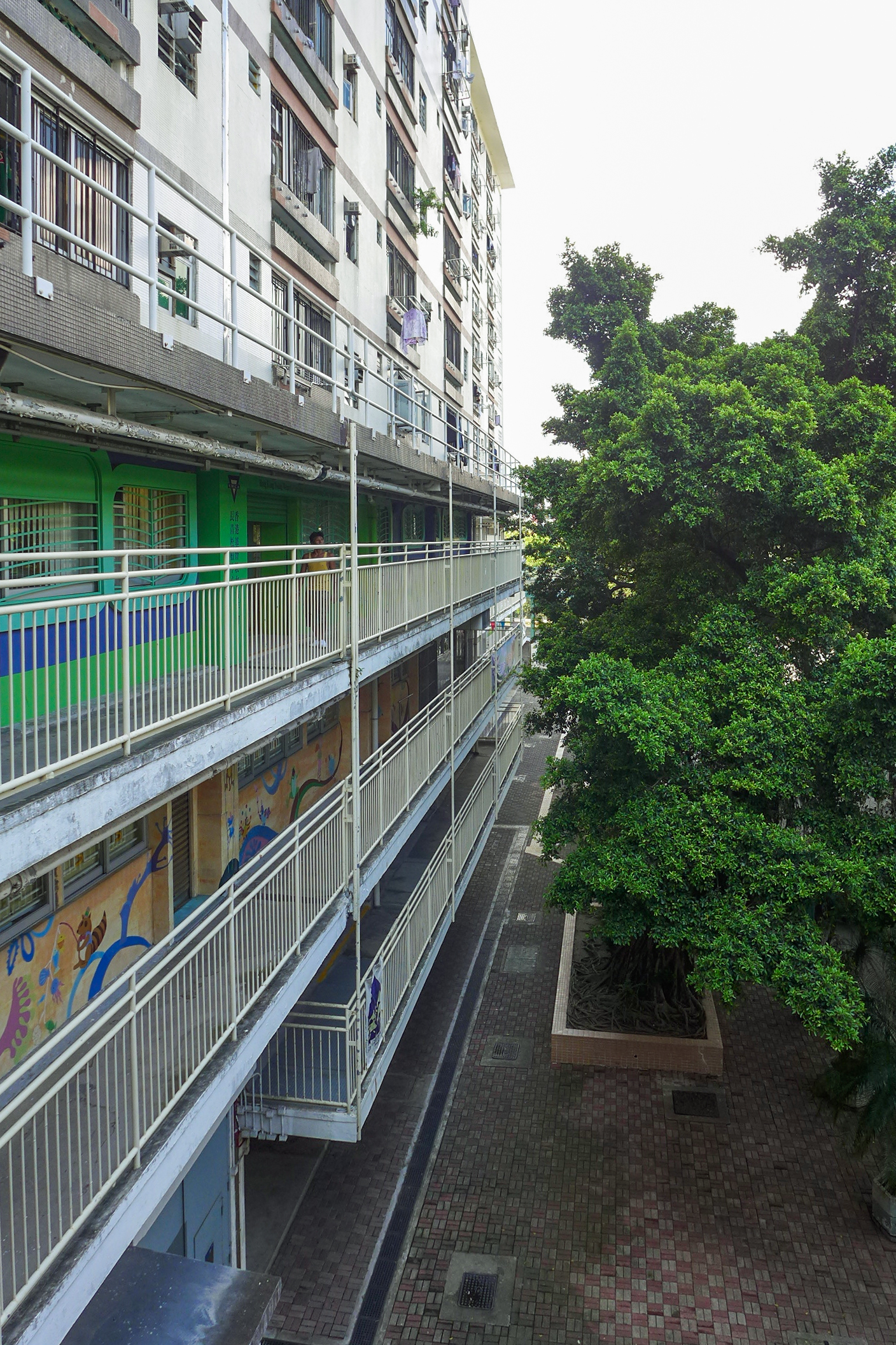 Ching Kwai House Corridor